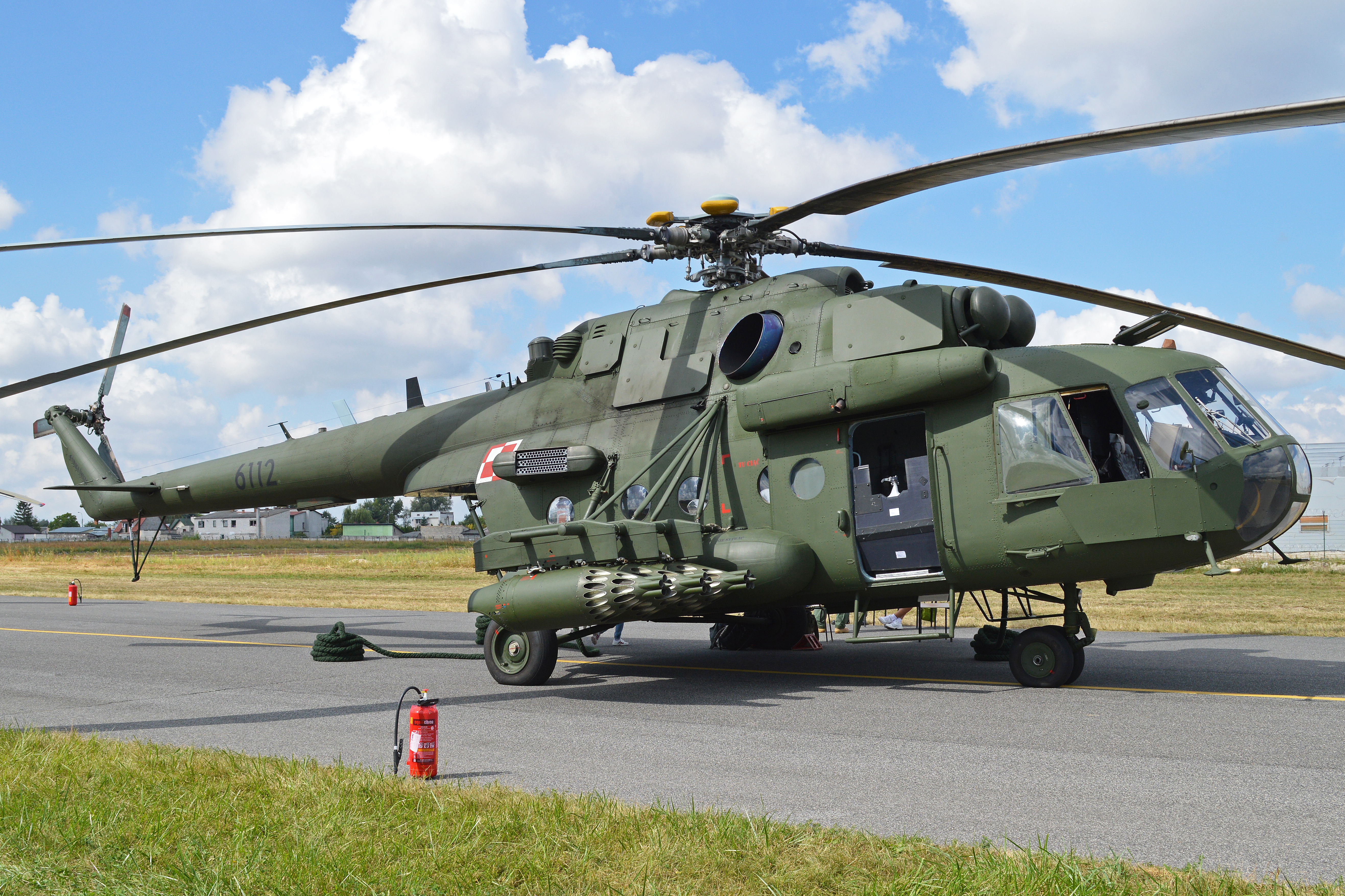 The '-1V' is the main gunship / transport variant. 10 are in Polish Air Force service with the 7th Special Operations Sqn based at Powidz. c/n 616M15. On static display at the 2013 Airshow at Radom Airbase, Poland. 24-8-2013